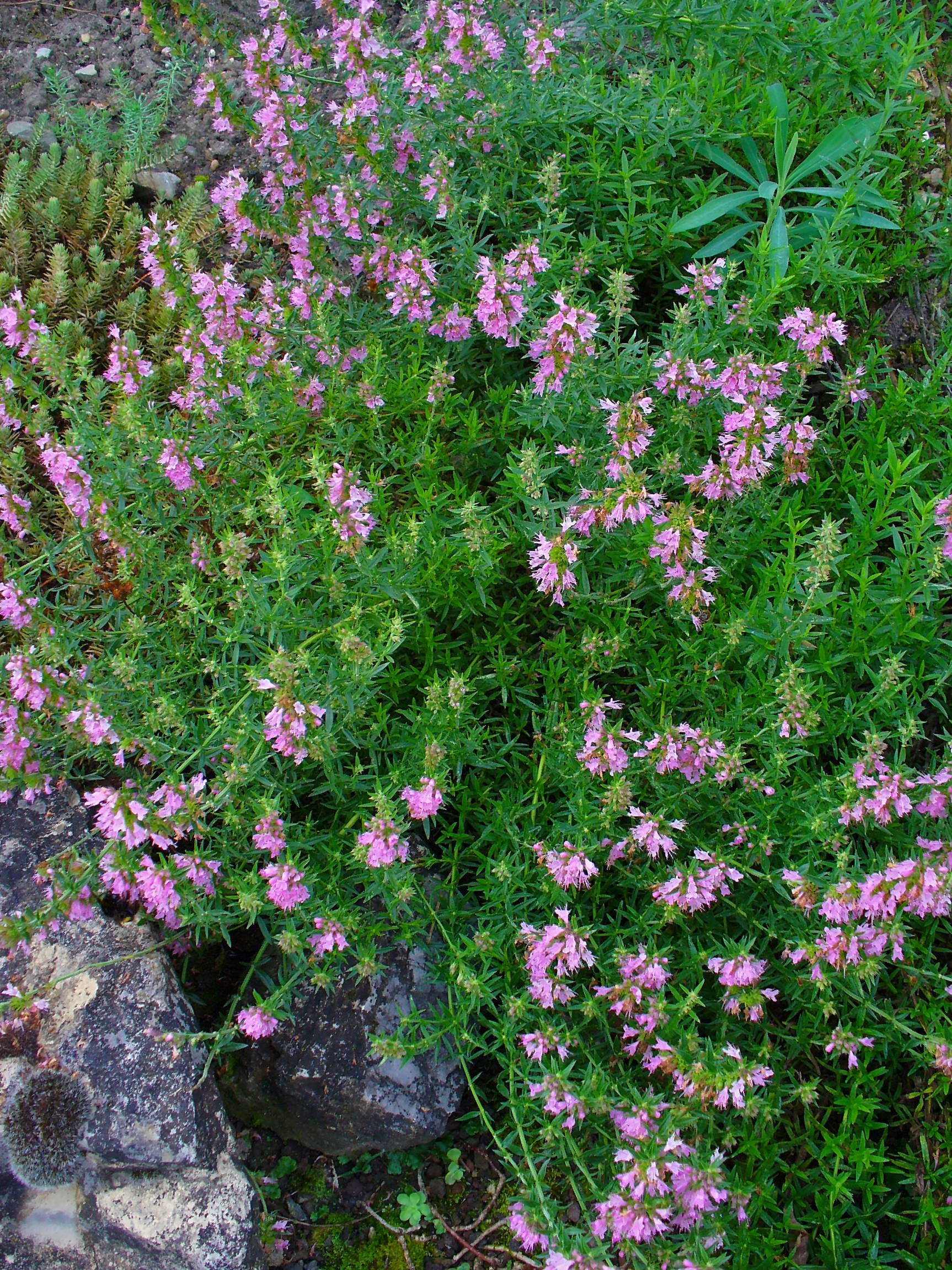 Hyssopus officinalis, Lamiaceae, Herb Hyssop, habitus; Botanical Garden KIT, Karlsruhe, Germany. The fresh, aerial parts of blooming plants are used in homeopathy as remedy: Hyssopus officinalis (Hyssop.)